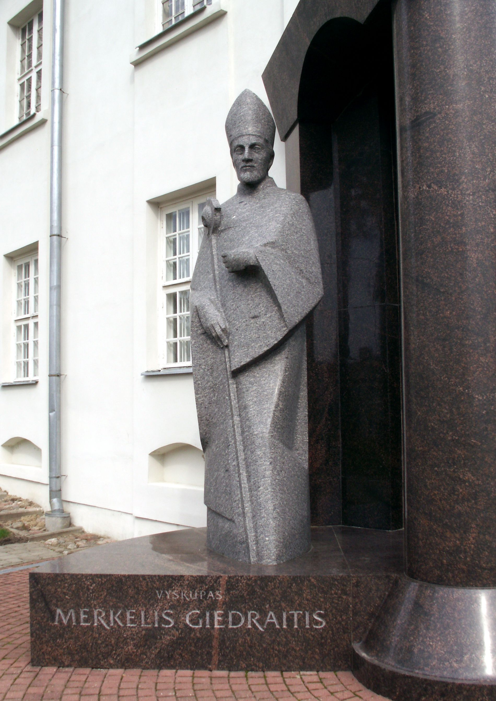 Varniai, biskup Merkelis Giedraitis, Lithuania